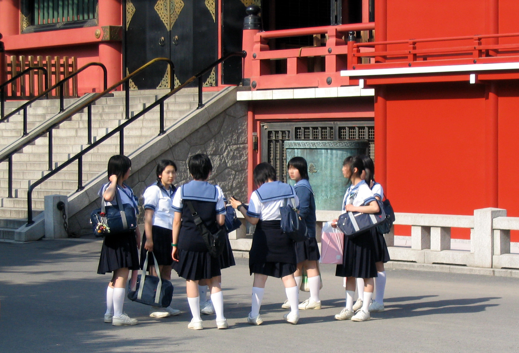 junior high school students wearing sailor fuku, Sensō-ji temple, Asakusa, Tokyo, Japan